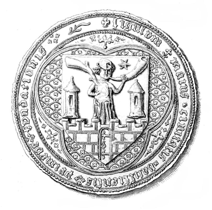 Kalisz seal from XV century